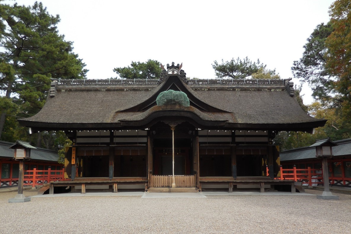 Sumiyoshi Taisha Hongu 1